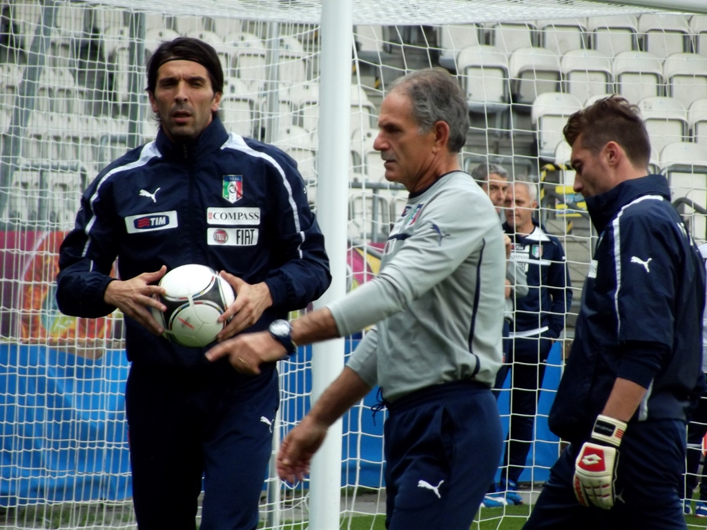 Gianluigi Buffon and Morgan De Sanctis during Italy national football team training on 26/06/2012